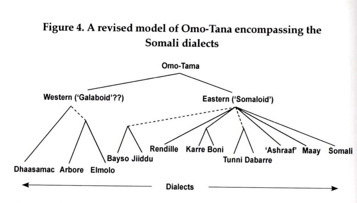 A revised model for the internal classification of Omo-Tana, recognizing the Somali "dialects" as both dialects on a sociolinguistic level and languages on a classification level.